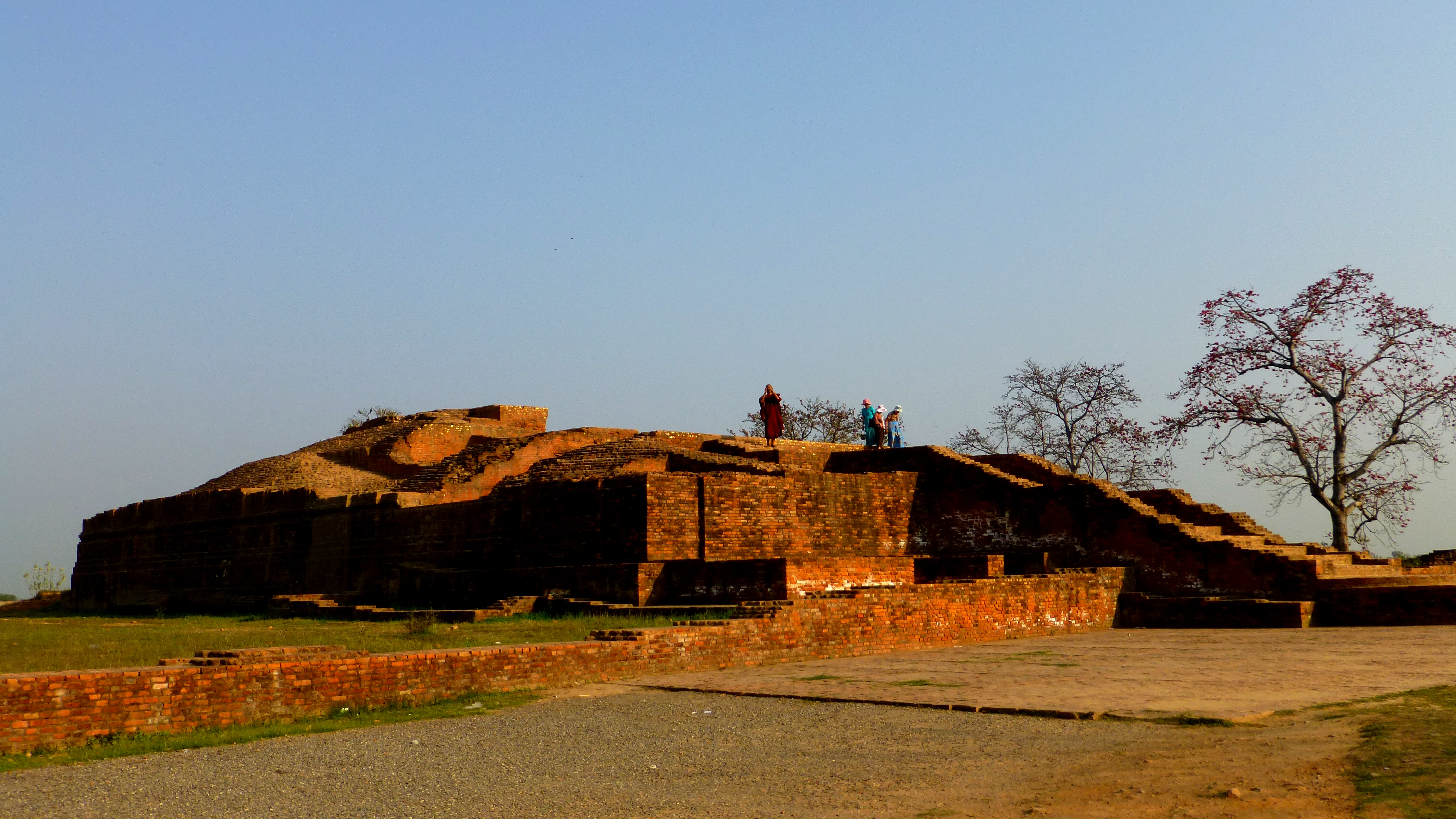 43 Anathapindika's Stupa, Shravasti. Photograph of the Jetavana monastery at Shravasti in Pradesh taken by Anandajoti.